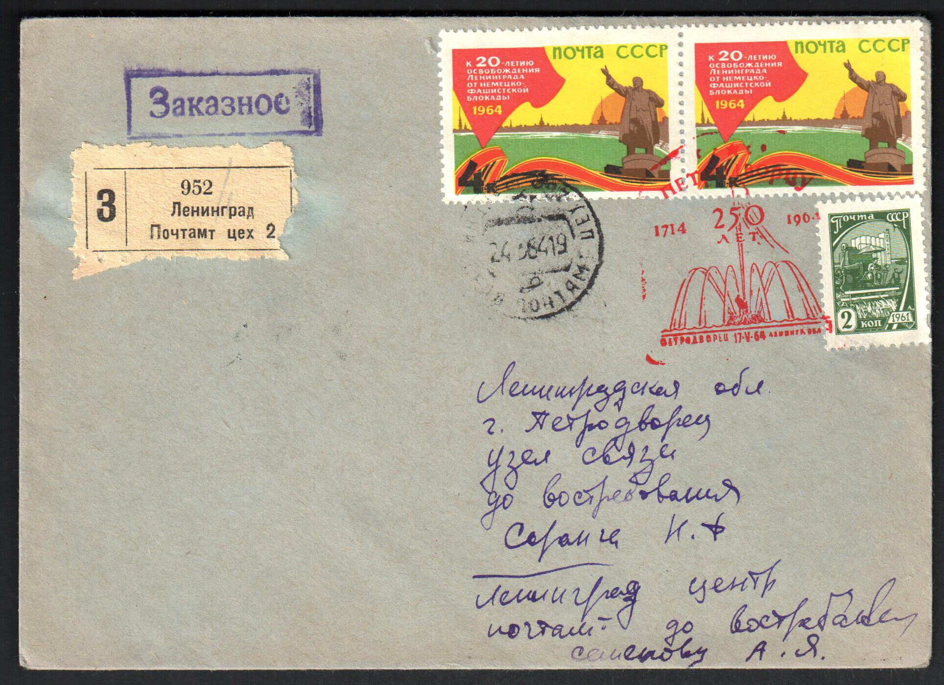 USSR 1964 cover, sent registered from Leningrad to Petrodvorets (now Peterhof). Registration label 'Leningrad' and violet boxed handstamp 'Zakaznoe' (meaning 'Registered'). The stamps are also cancelled with a special postmark of the Soviet Union dedicated to the 250th anniversary of Petrodvorets, dated 17.V.1964, and depicting the famous Sampson Fountain. 2k 1961 definitive stamp depicting Harvester and silo, catalogue numbers: Mi. 2435, Sc. 2440, CPA 2511 4k 1964 commemorative stamp pair dedicated to the 20th anniversary of the liberation of Leningrad, catalogue number: Mi. 2905a